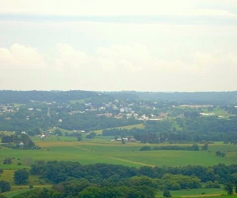 Elizabeth, Illinois, as seen from the scenic overlook just west of the city.